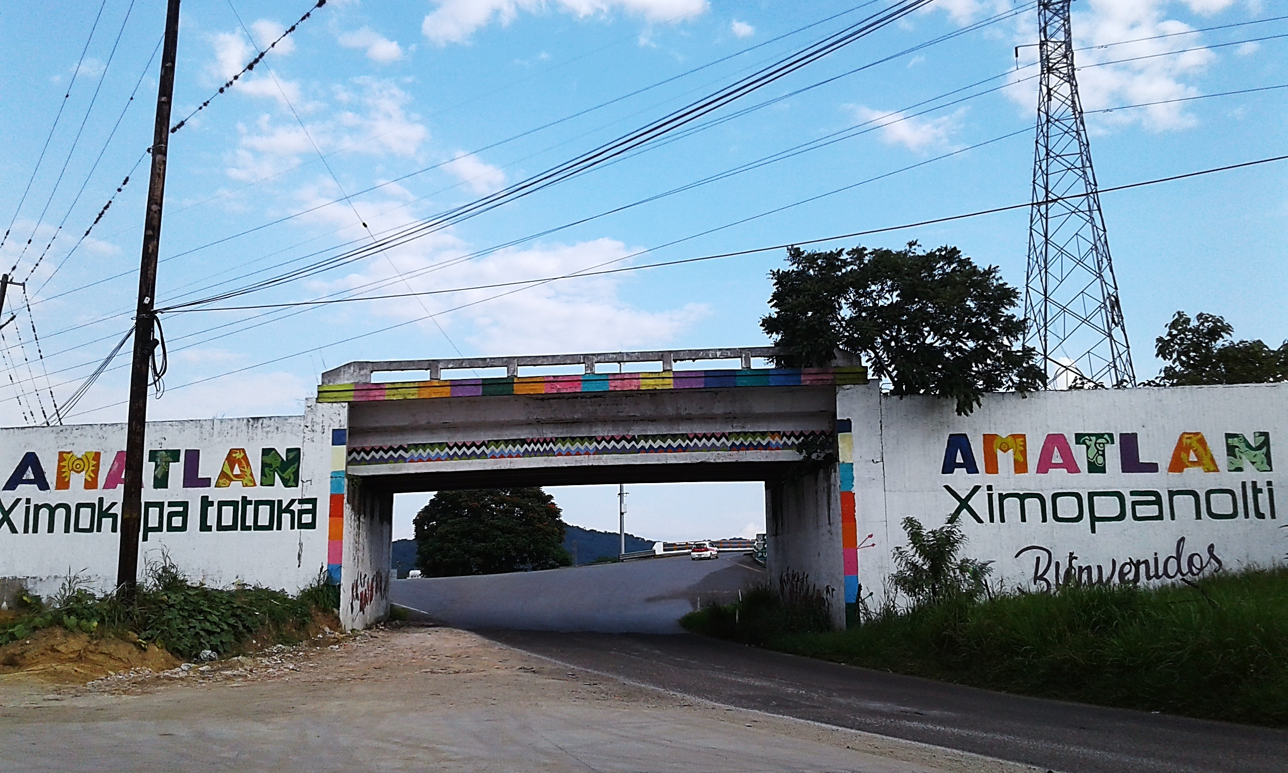 boulevard Córdoba amatlán